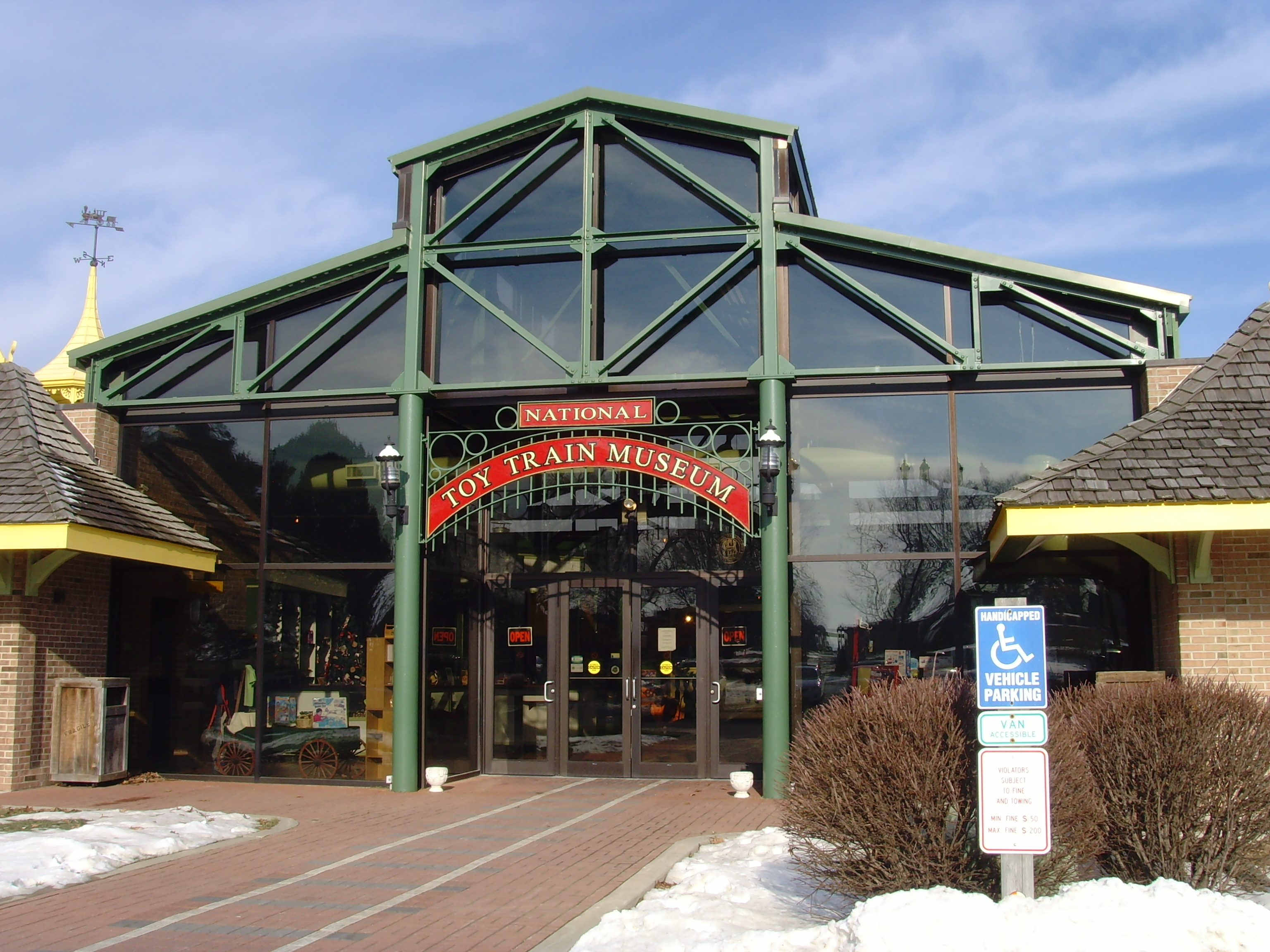 0520 Strasburg - National Toy Train Museum